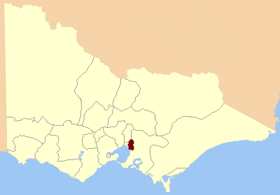 Electoral district of South Bourke, Victorian Legislative Assembly. 1856